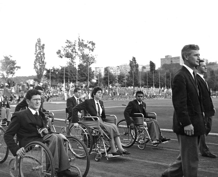 Members of the Australian Paralympic Team, led by Team official Kevin Betts, march in the Opening Ceremony of the 1960 Rome Paralympic Games